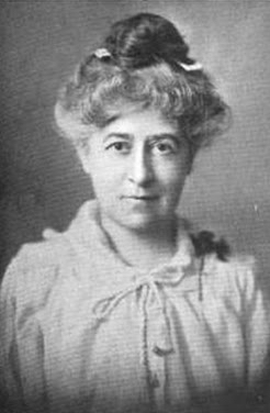 A middle-aged white woman with dark eyes and grey hair; her hair is in a bun on top of her head; she is wearing a light-colored buttoned blouse with a tie closure at the neck.